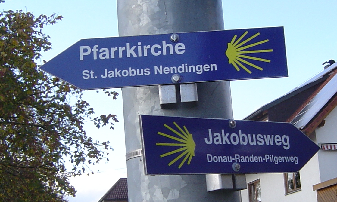 Sign of the way of St. James in Nendingen.